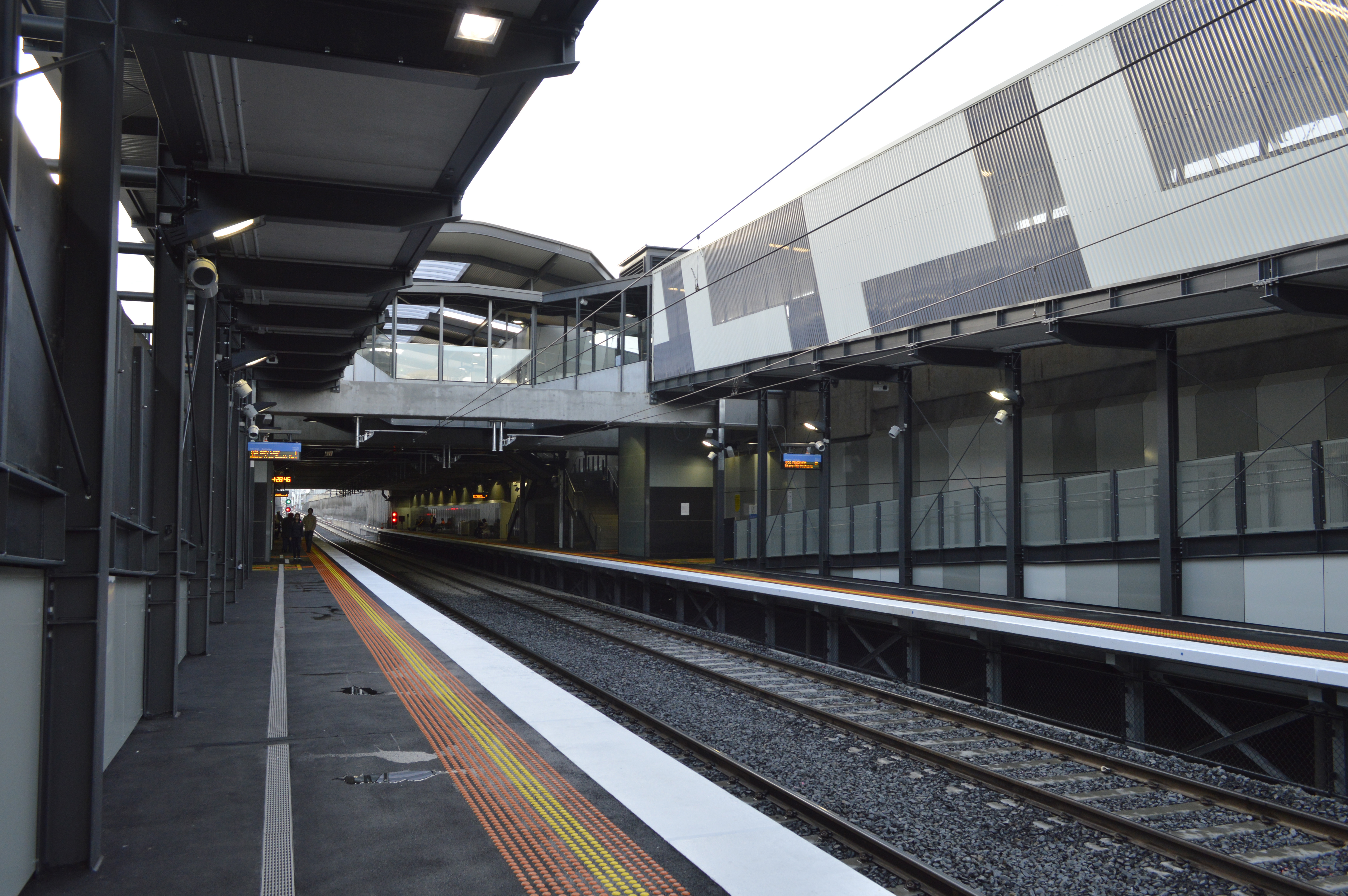 Looking north.